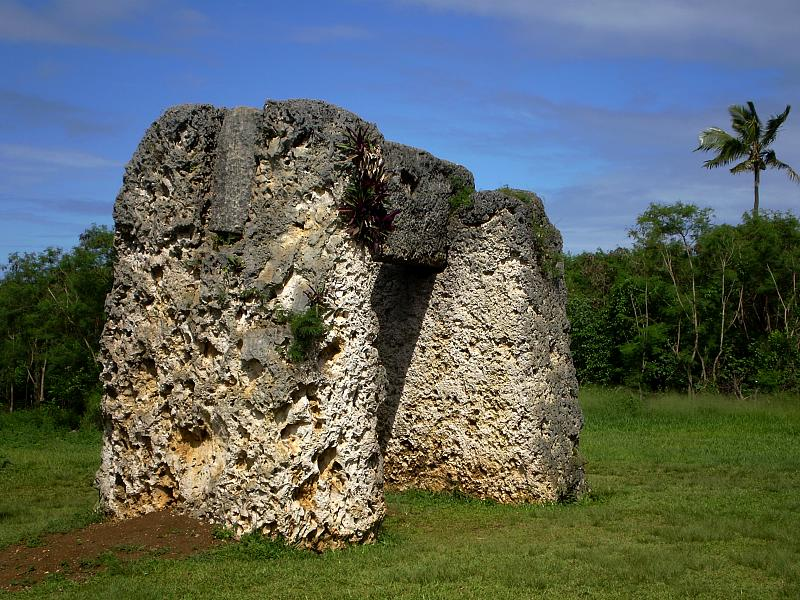 Ha'amonga 'a Maui